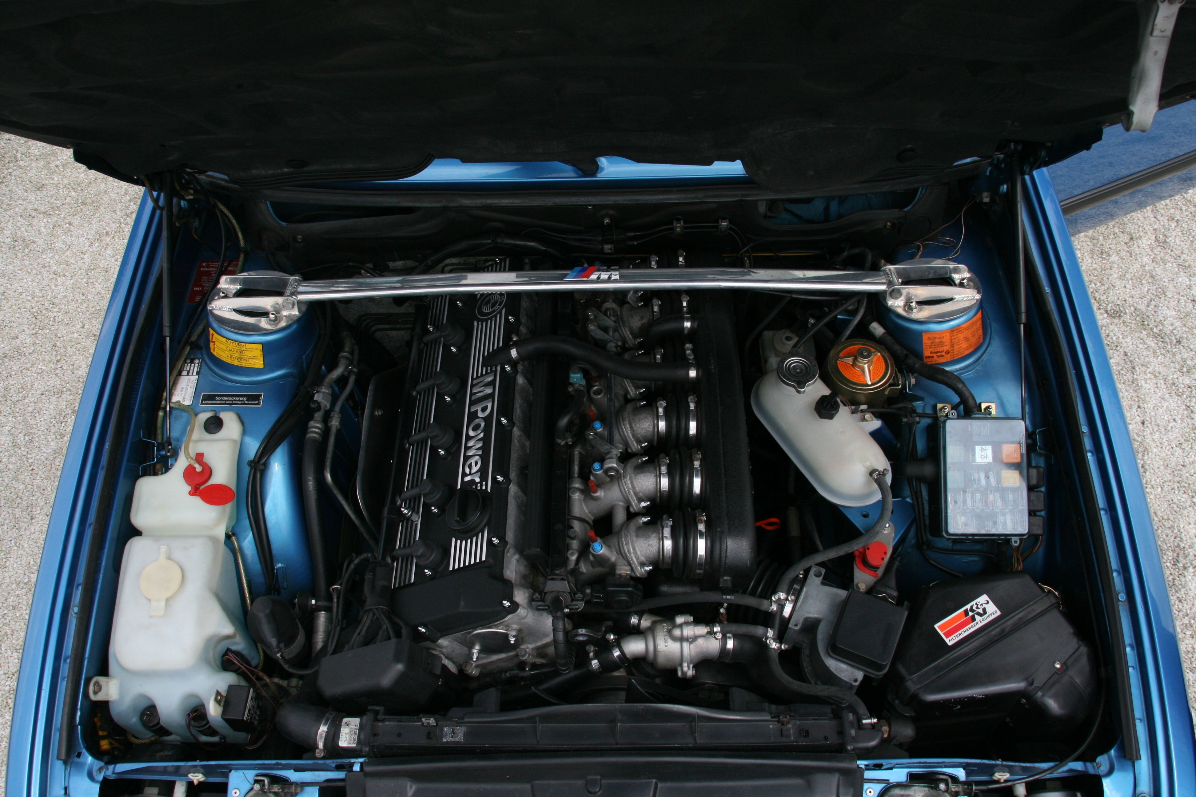 BMW M5 E28 Minervablau Engine Bay